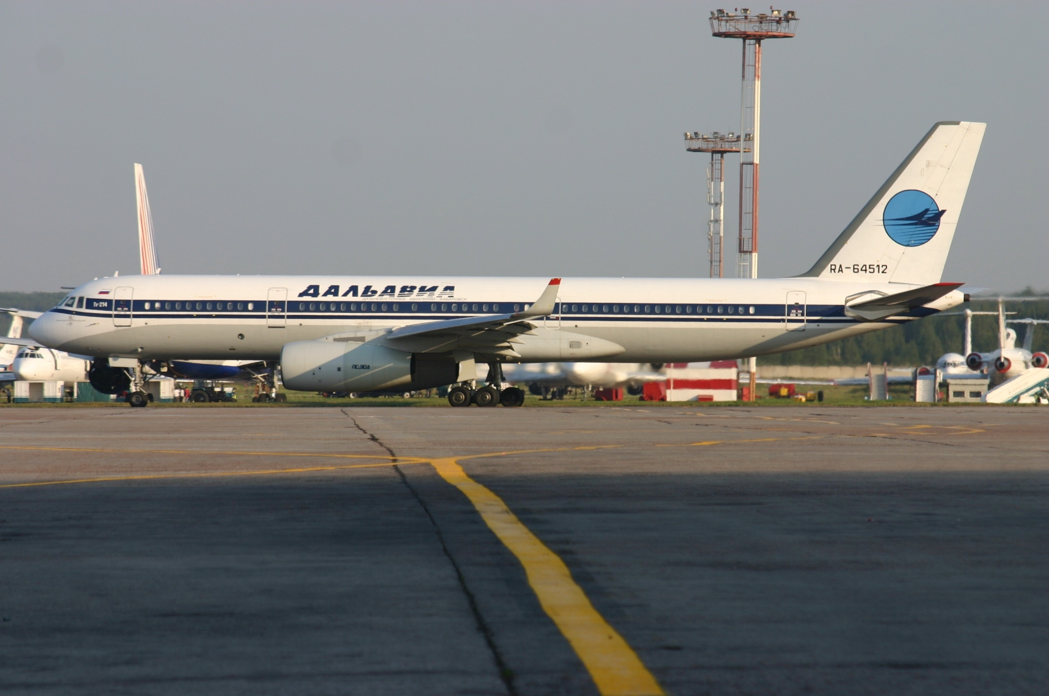 At Moscow Domodedovo